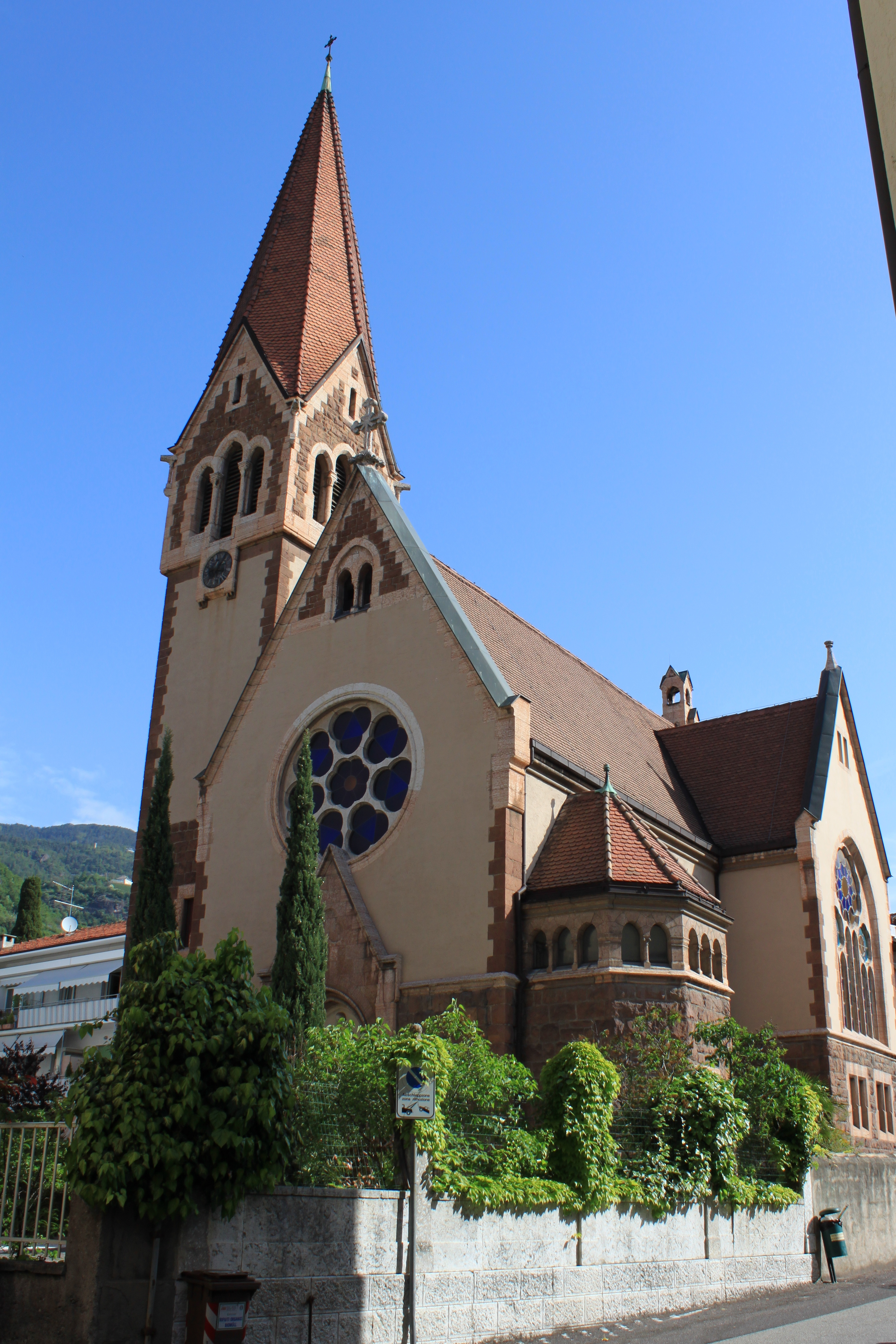 Evangelical Church in Bozen Gries Bolzano South Tyrol - south west view